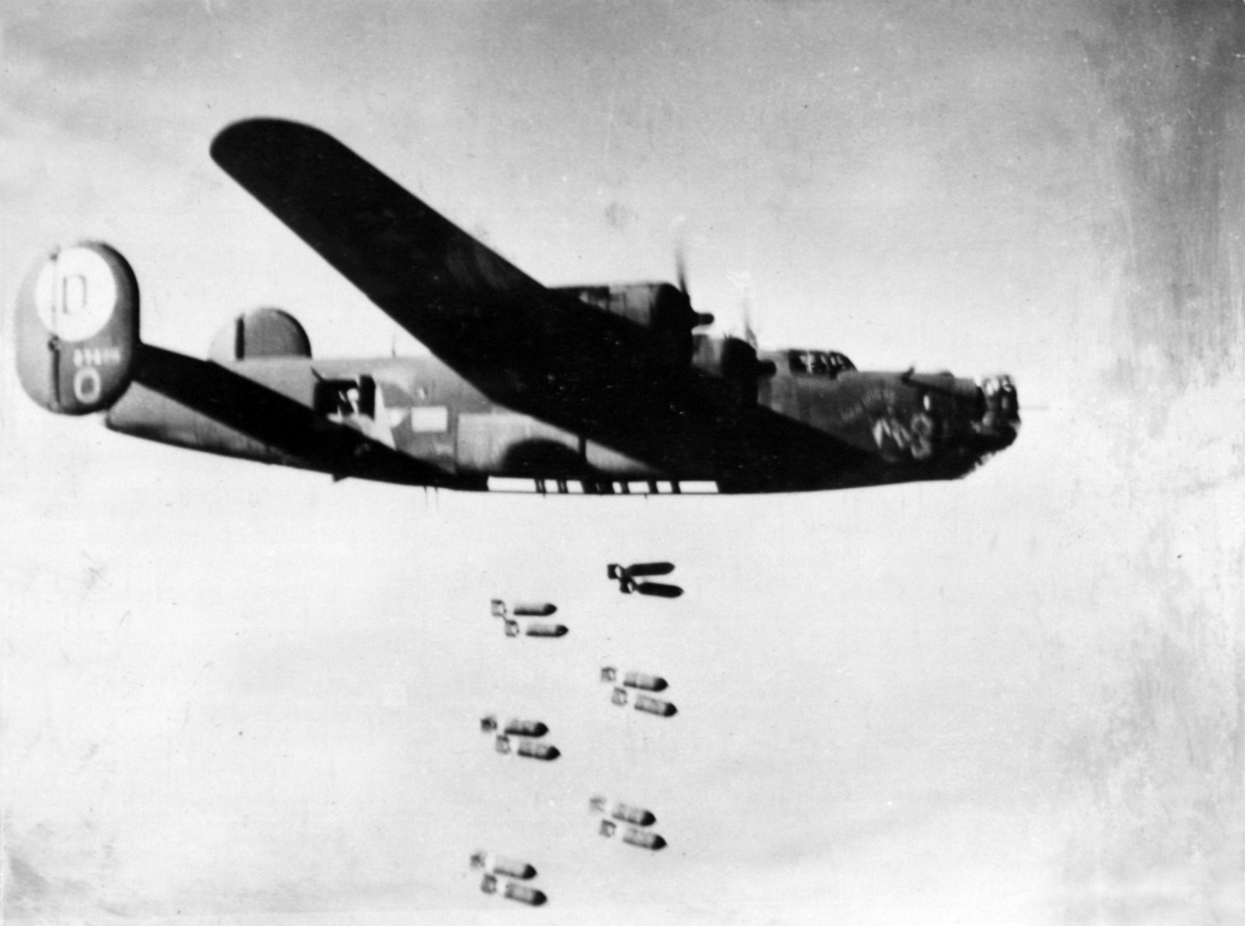 Named "War Horse" Ford B-24H-1-FO Liberator s/n 42-7479 579th BS, 392nd BG, 8th AF This aircraft was lost on the January 4,1944 mission to Kiel,Germany. It is believed that she went down over the North Sea and the entire crew was KIA.